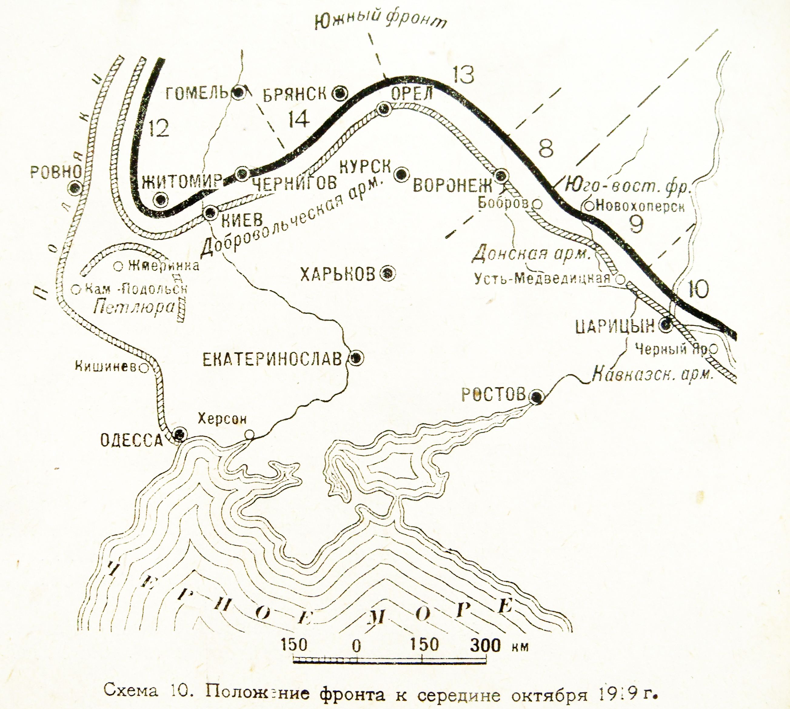 Map showing maximum territories controlled by Armed Forces of South Russia. October 1919.